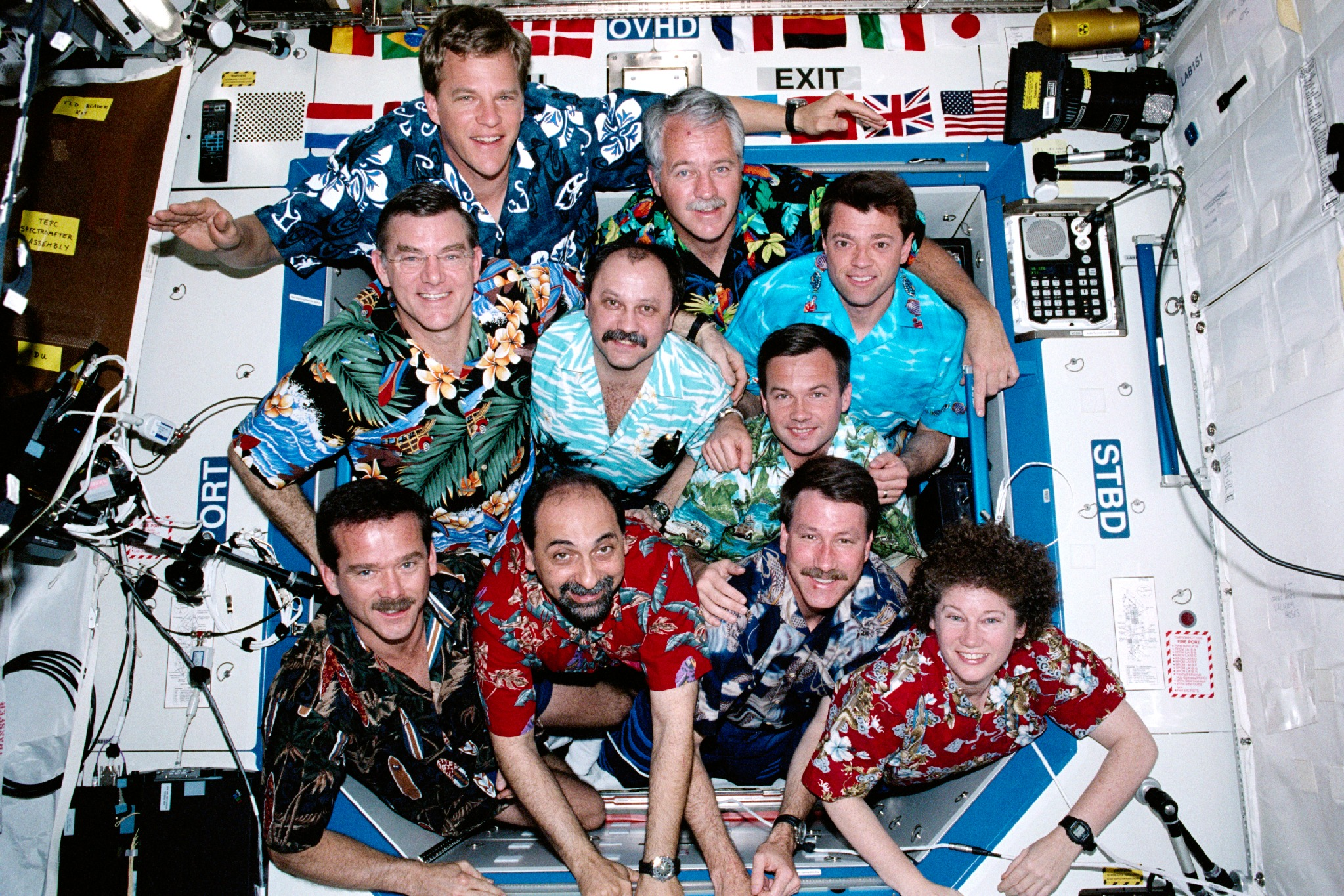 STS-100 and Expedition Two crew members pose for traditional in-flight portrait in Destiny laboratory. Bottom, from left, Chris A. Hadfield, Umberto Guidoni, Kent V. Rominger and Susan J. Helms. Middle row, James S. Voss, Yury V. Usachev and Yuri V. Lonchakov. Top, Scott E. Parazynski, John L. Phillips and Jeffrey S. Ashby. Guidoni represents the European Space Agency (ESA); Lonchakov and Usachev are with Rosaviakosmos and Hadfield is associated with the Canadian Space Agency (CSA).